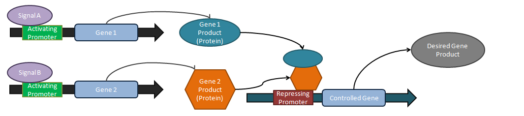 Depiction of NAND logic gate described in Silva-Rocha and Lorenzo "Mining logic gates in prokaryotic transcriptional regulation networks"